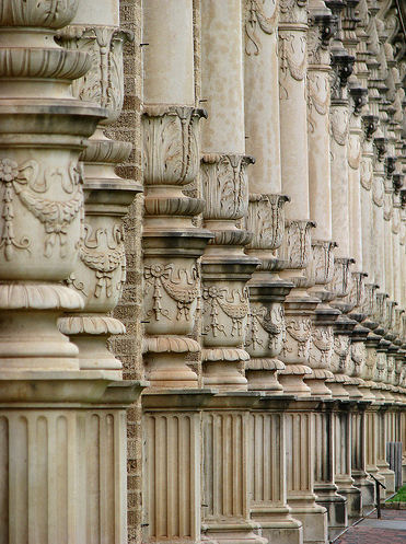 Columns at the exterior hallway of the Chemistry Building at Texas Tech University in Lubbock, Texas.